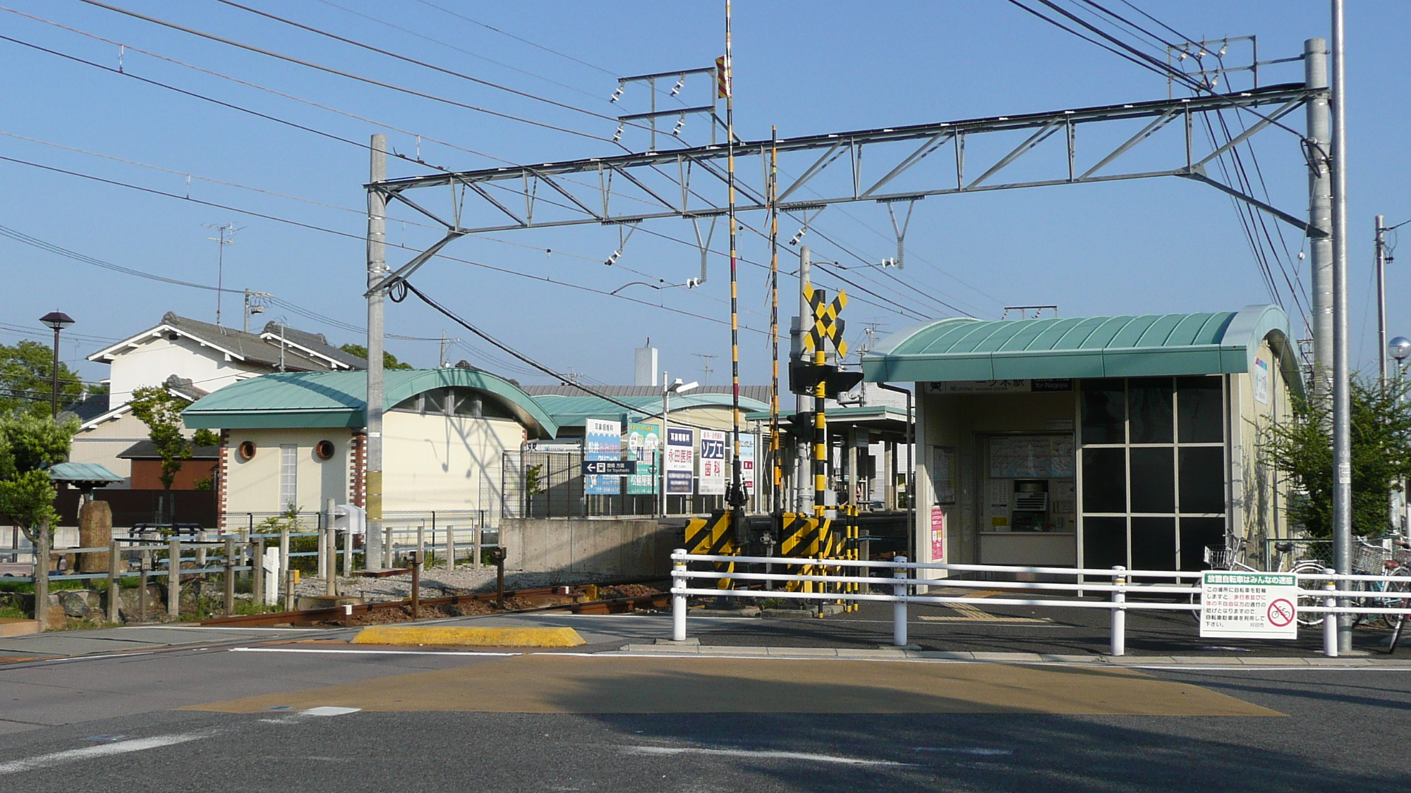 HITOTSUGI Station, Nagoya Railroad.